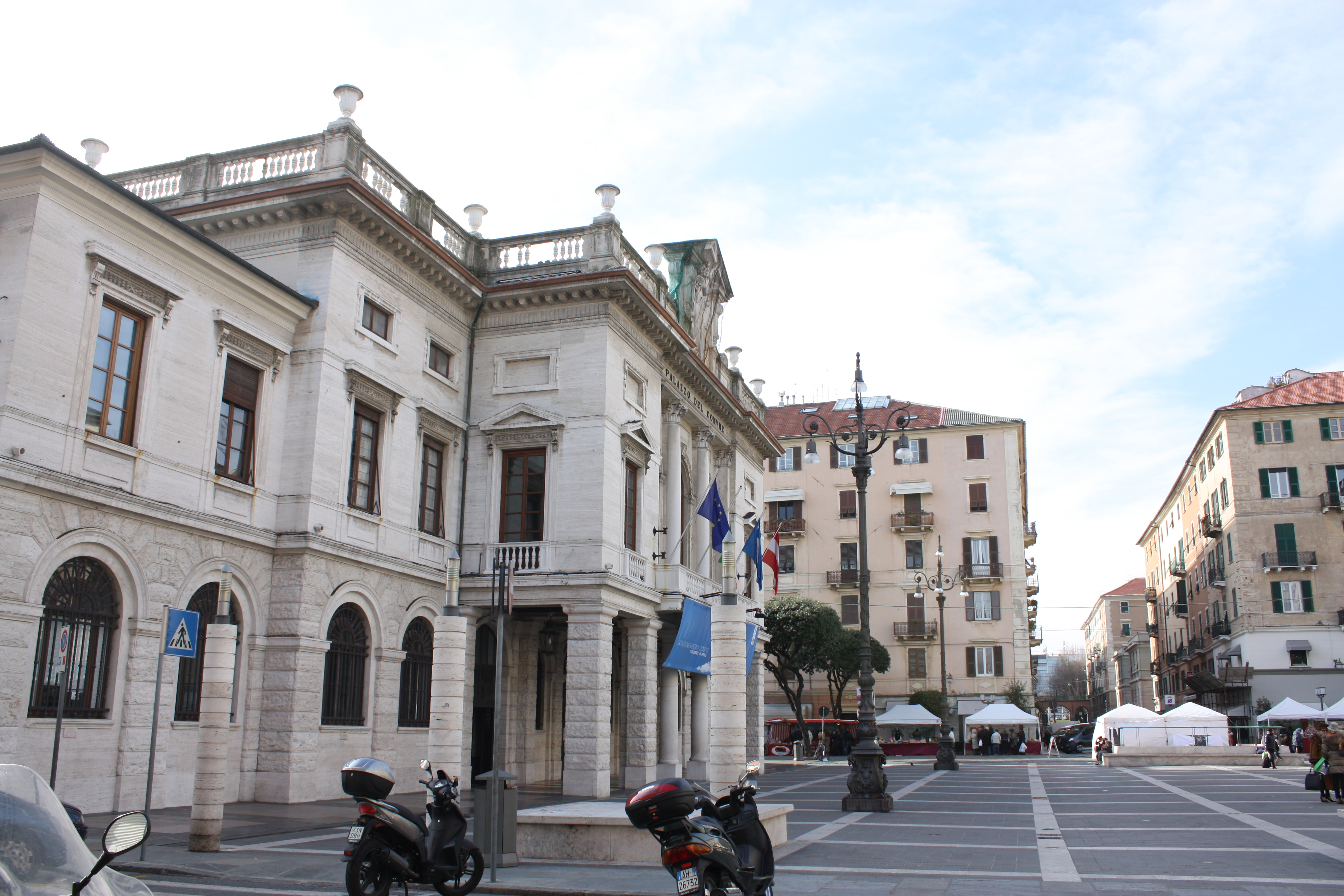 City hall in Piazza Sisto IV in Savona, Italy.